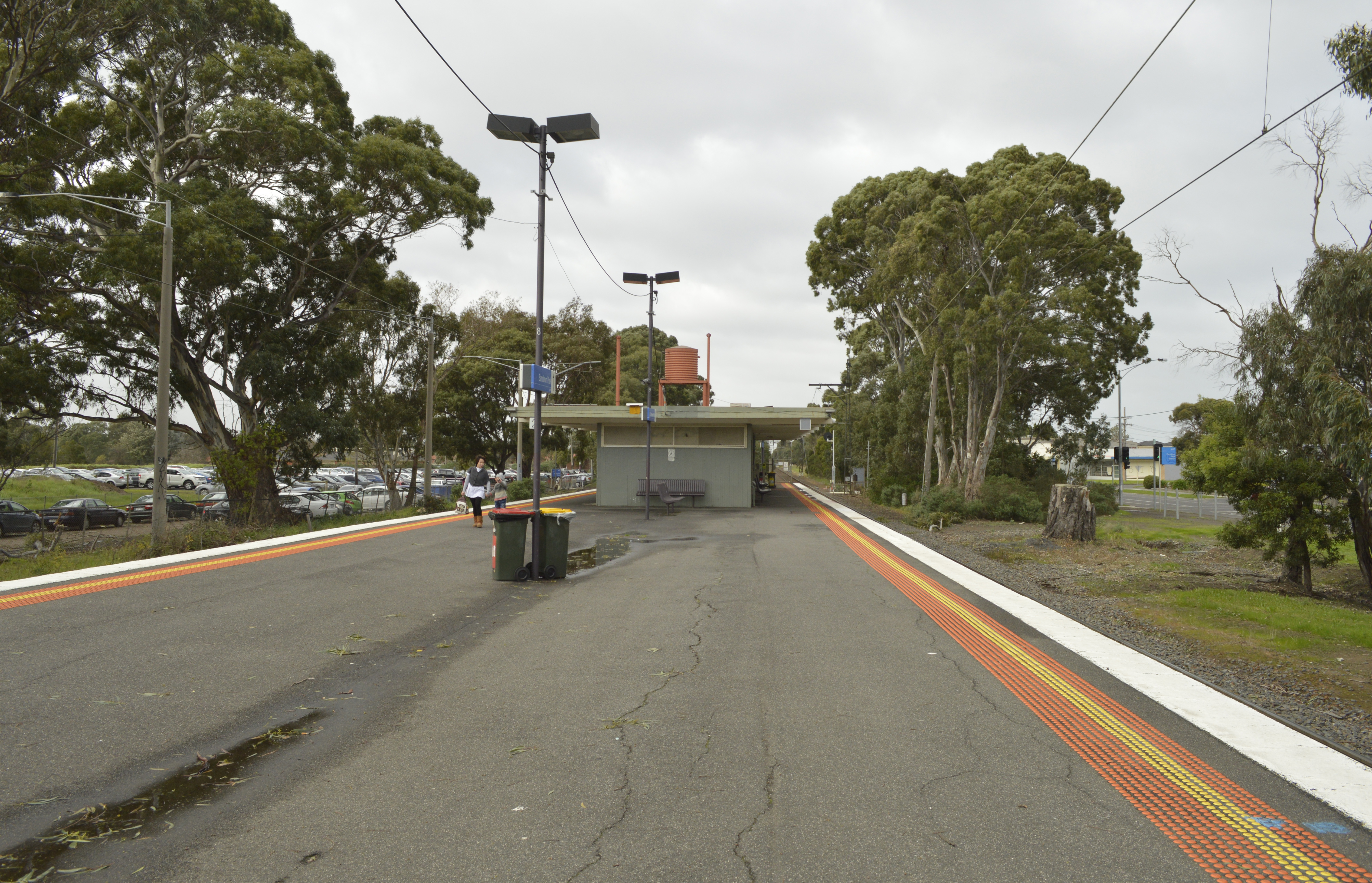 Looking in the down direction